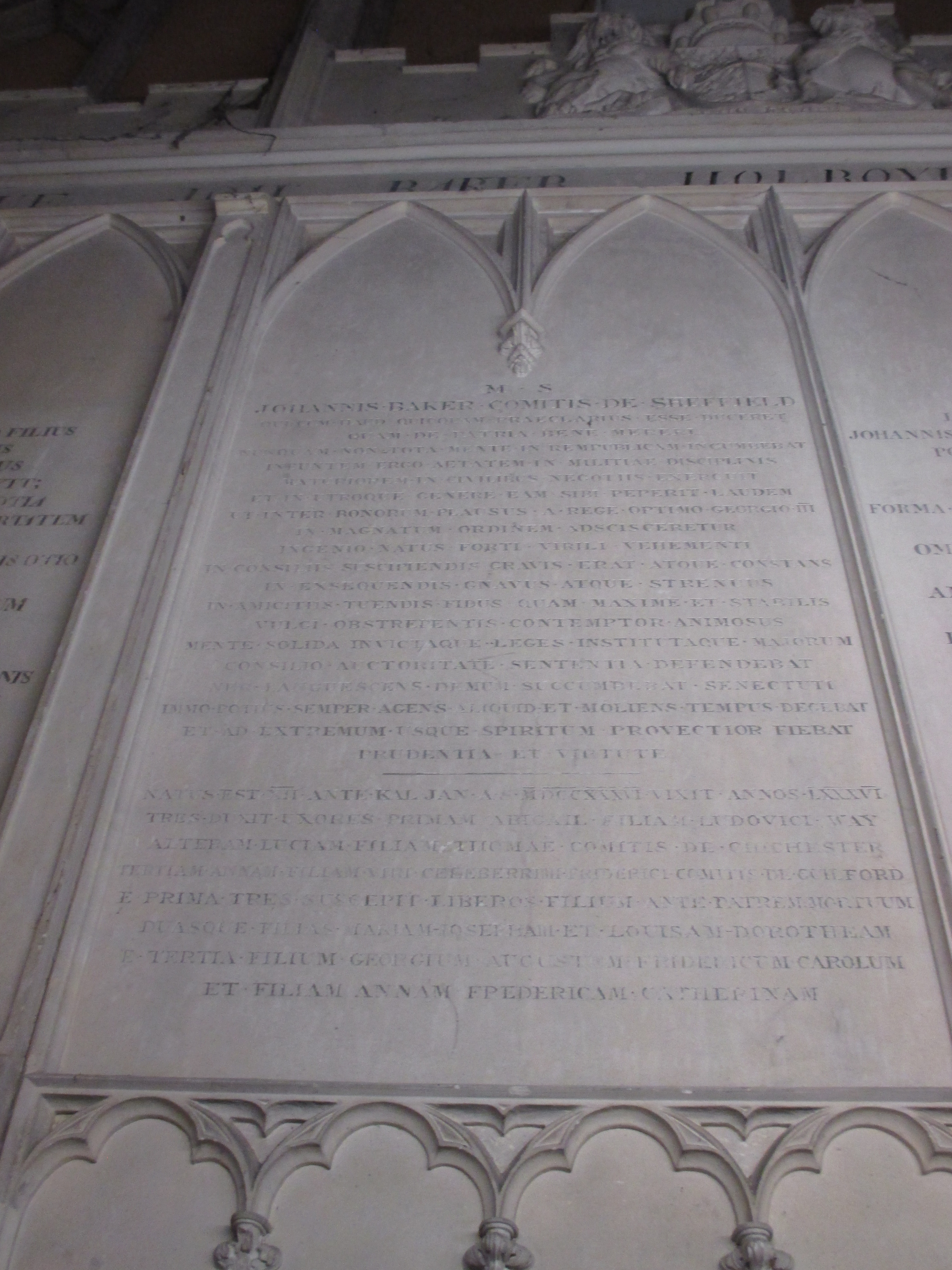 Memorial tablet to John Baker Holroyd, 1st Earl of Sheffield on the side of the Sheffield Mausoleum, St Andrew and St Mary the Virgin's Church, Fletching, East Sussex.